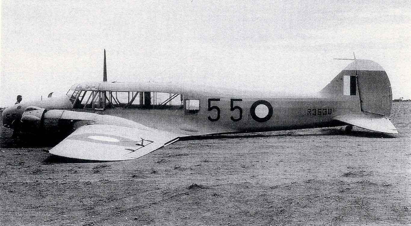 Avro Anson R3530 of No. 6 Service Flying Training School RAAF after its undercarriage failed on landing at Mallala, South Australia, in February 1945.